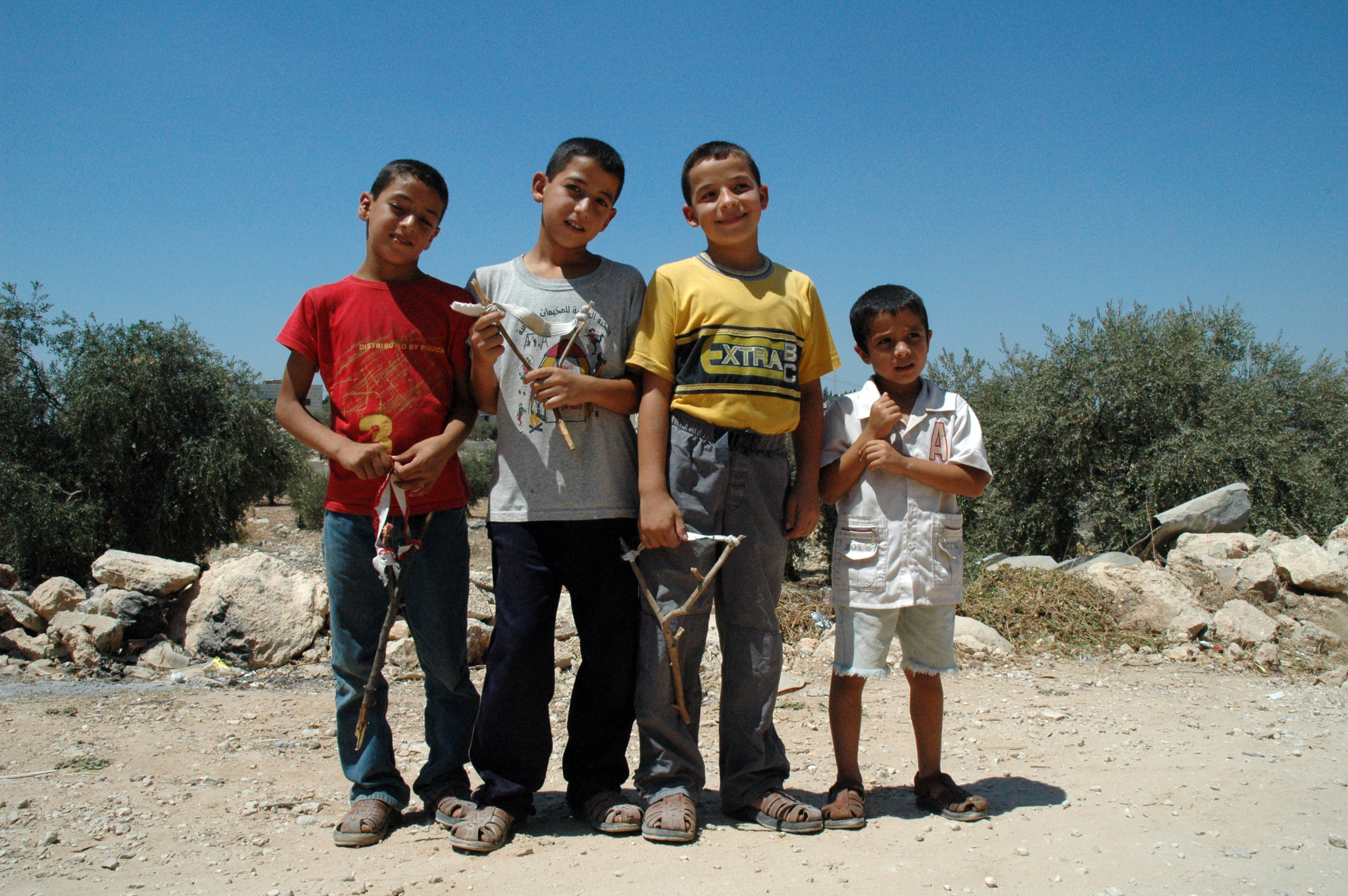 Mas'Ha, West Bank. Palestinian youth pose with their slingshots made from old BVD underwear